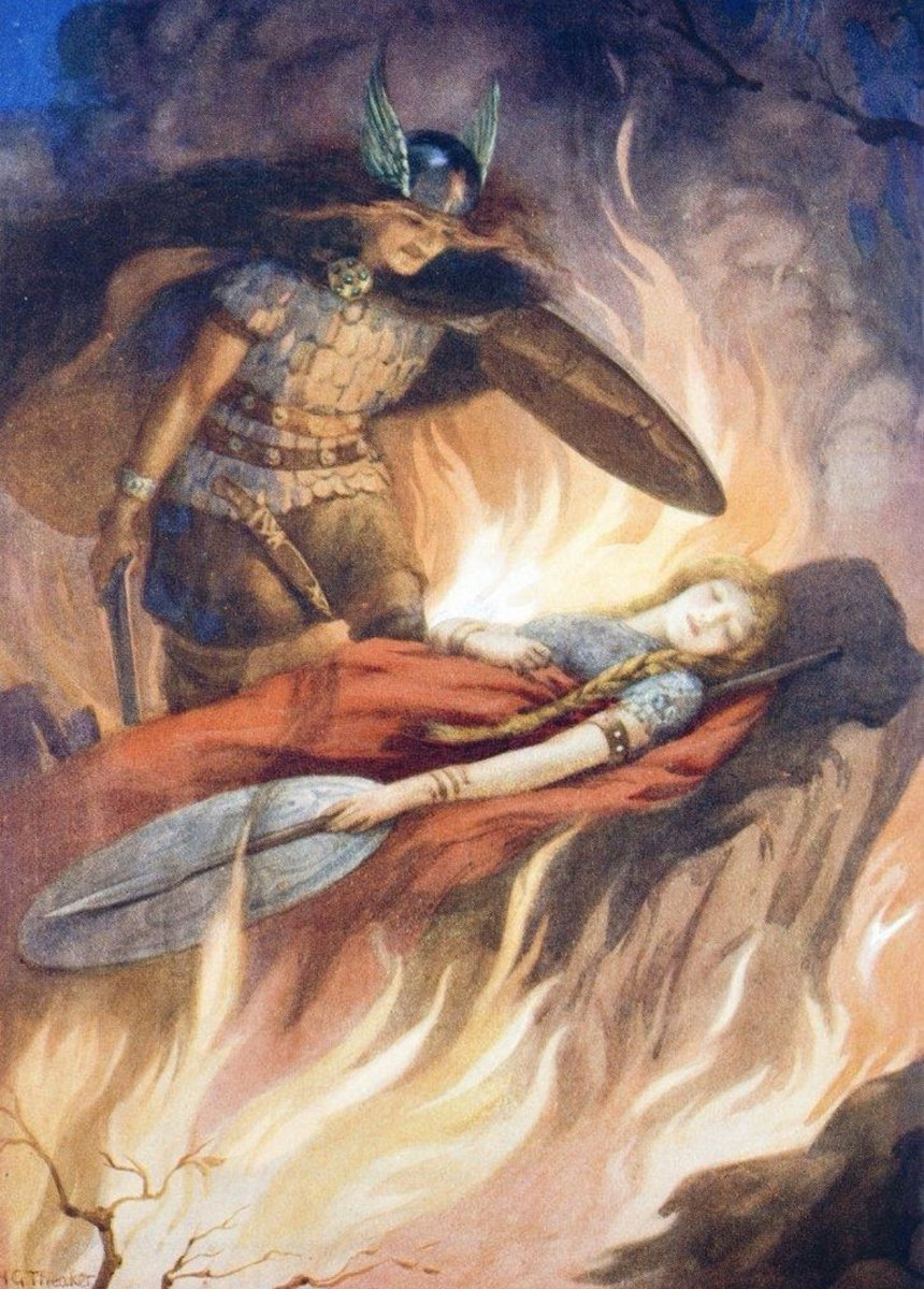 Sigurd and Brunhild - Illustration by Harry George Theaker for Children's Stories from the Northern Legends by M. Dorothy Belgrave and Hilda Hart, 1920